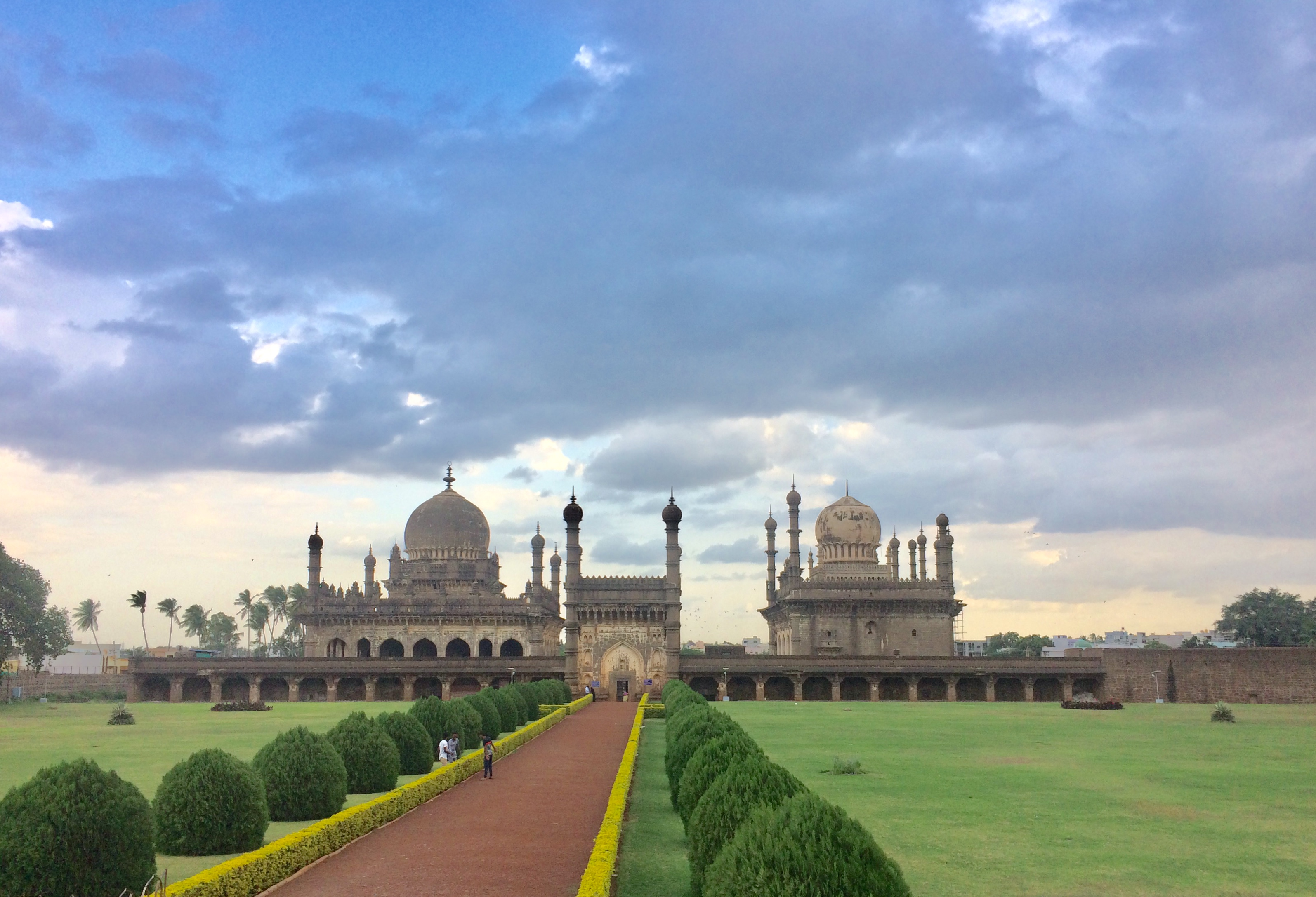 This is also known as the Ibrahim Rauza which is the tomb complex where Ibrahim Adil Shah II is buried along with his wife queen Taj Sultana. It is one among the supreme achievements of the Adil Shahi’s which is remarkably considered and finely decorated. It was completed in the year 1627 by Ibrahim Adilshah –II, it is a square structure with twin buildings and delicate carvings. The building was designed by the Persian architect Malik Sandal with the sentence of Quraan are beautifully covered on the walls. Ibrahim Roza is the tomb of Ibrahim Adil Shah II with his two sons and his mother on the left and on the right side with a mosque set in a walled garden facing over an attractive pond. The tomb is in a chamber of 13 meters and has the ceiling divided into nine squares with curved sides. It is one of the splendid mosque and tomb of Bijapur, it is known for its graceful arches, halls, intricate designs with a large crowning onion dome. The dome is rising from a lotus petal base, it is said to be a creativeness of the Taj Mahal at Agra with 24 meters. The big fountain and reservoir divide the mosque from the tomb, it is counted one among the beautiful instances of Islamic architecture. This consists of the interconnected buildings, with the faultless domes topped with the crescent moons and surrounded on the four corners with the symmetrical minarets that manages the structural simplicity with intricate stonework with point arches that leads to cool high ceiling chambers and walls richly decorated with sculptures and hangings. The construction was between the 15th to 17th century of the Ibrahim Roza and the mosque built in the walled garden facing the ornamental pond. This was located at about 2 km from Bijapur on the western outskirts of the city. It has significant sculptural decorative work with intricate design works.